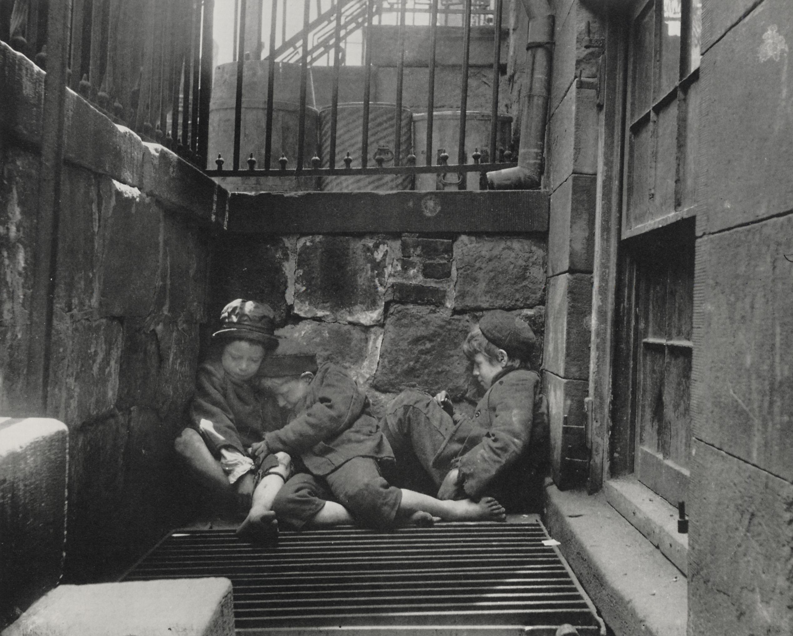 Jacob Riis: "Nomads of the Street", Street children in their sleeping quarters, New York